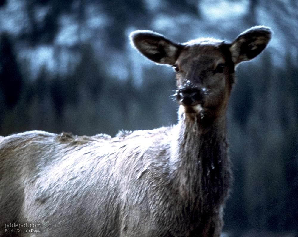 Image title: European deer female cervus elaphus hippelaphus Image from Public domain images website